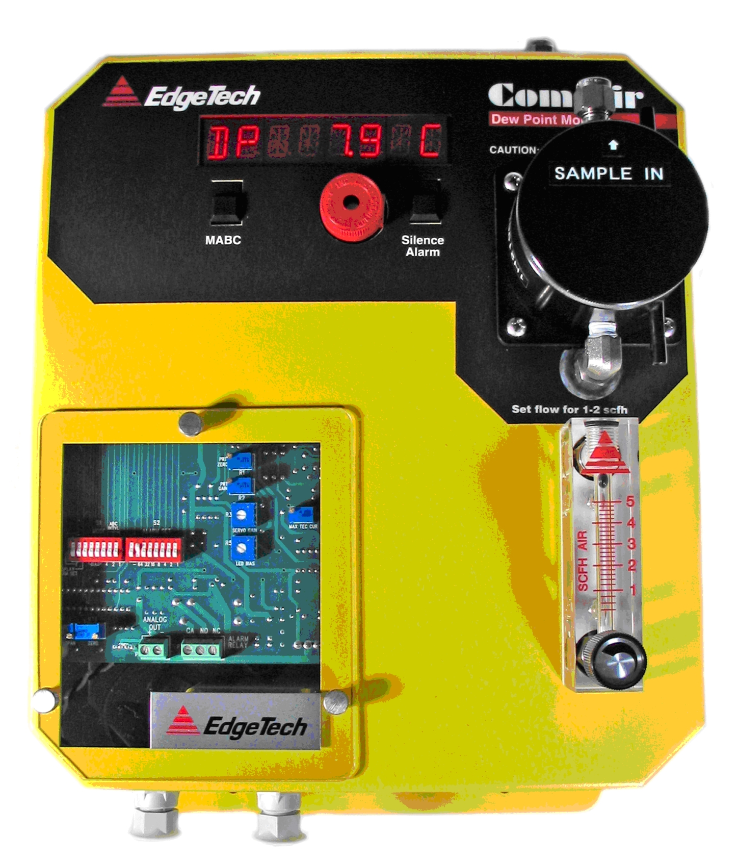 Dewpoint mirror by EdgeTech